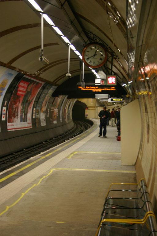 Southbound Northern Line platform of Tufnell Park tube station.